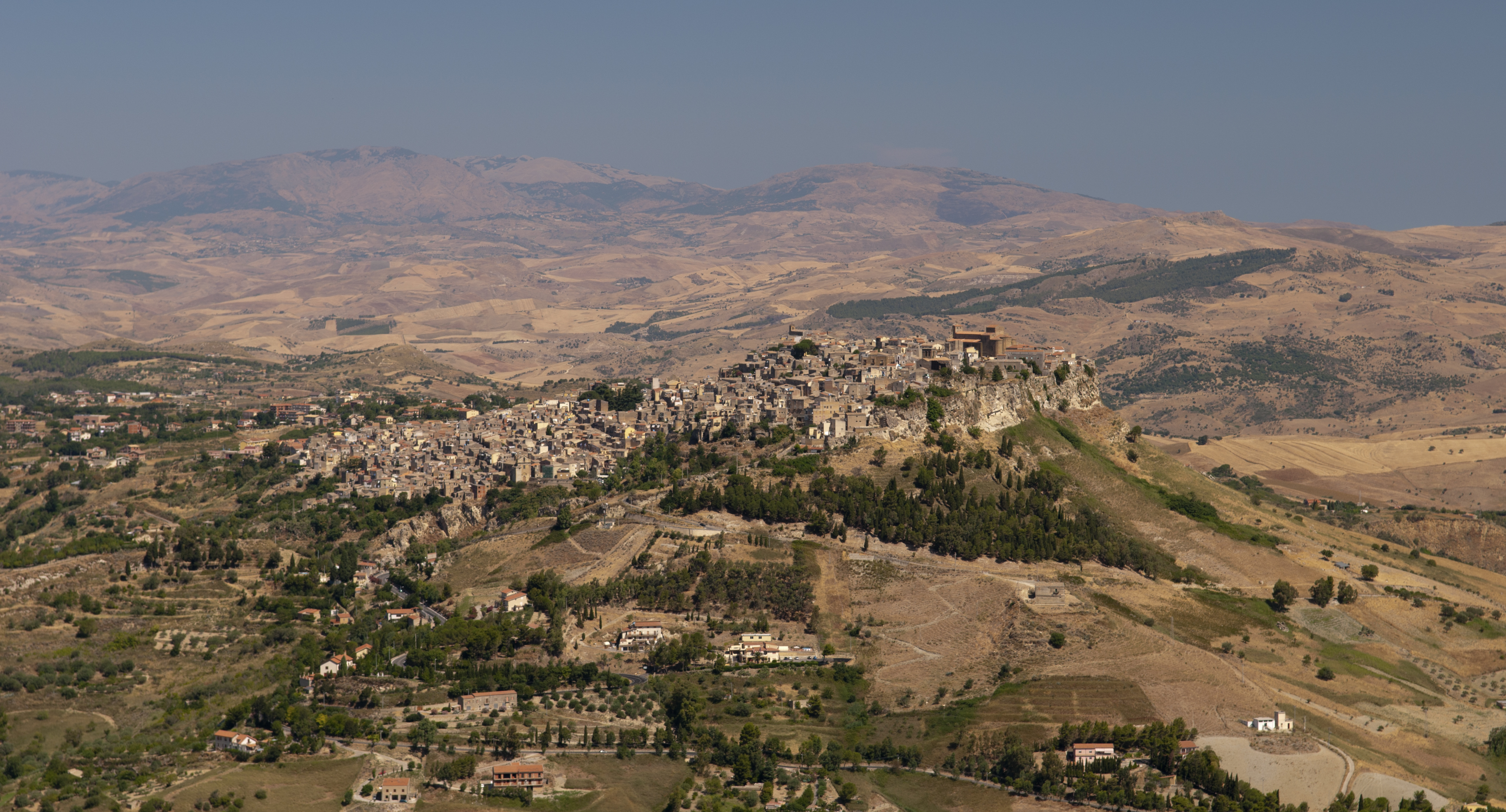 View on Calascibetta from Enna, Sicily, Italy